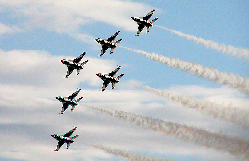 The USAF Thunderbirds form the Delta at the end of the Nellis AFB 2004 airshow.